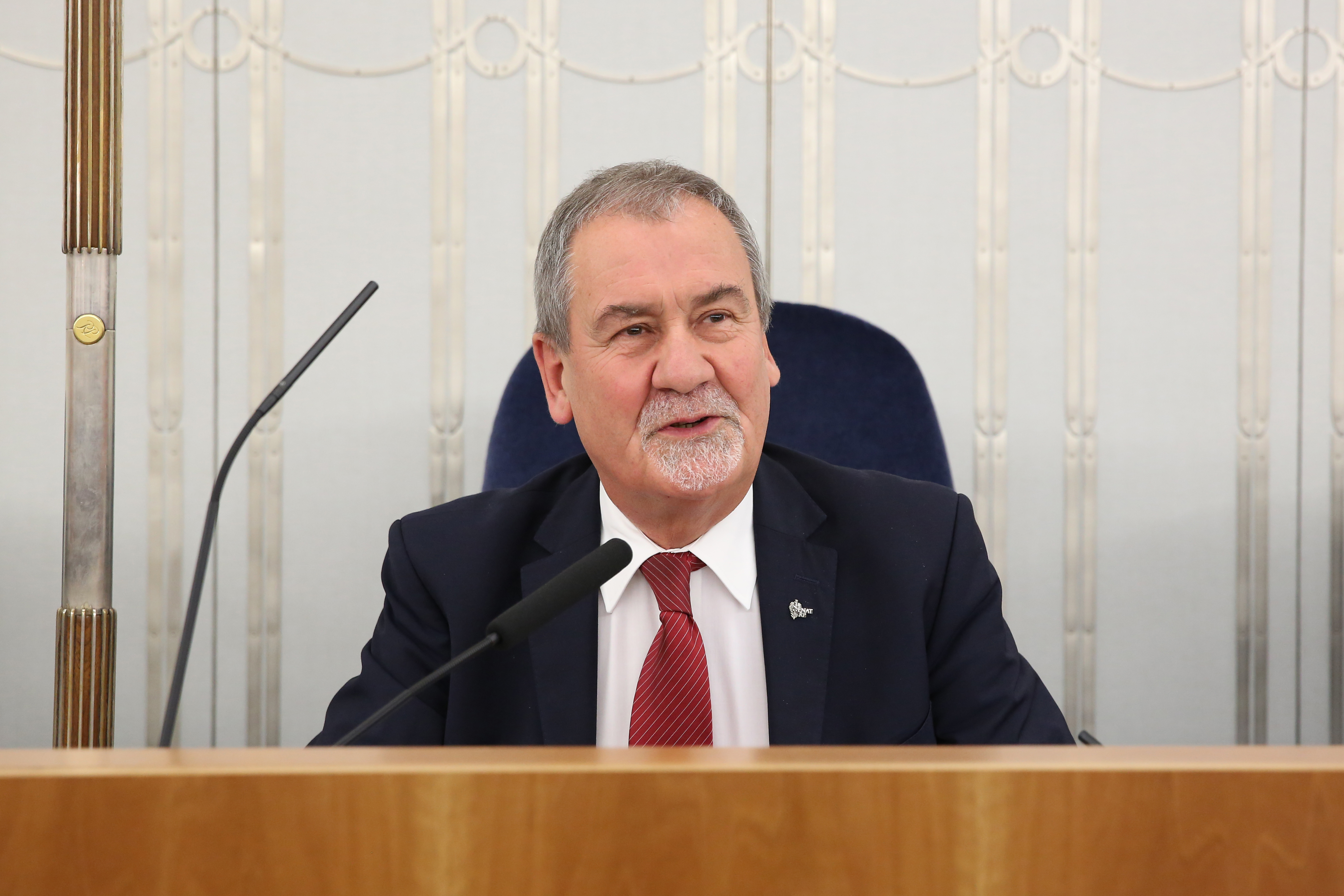 Deputy Marshal Jan Wyrowiński during 82nd sitting of the Polish Senate